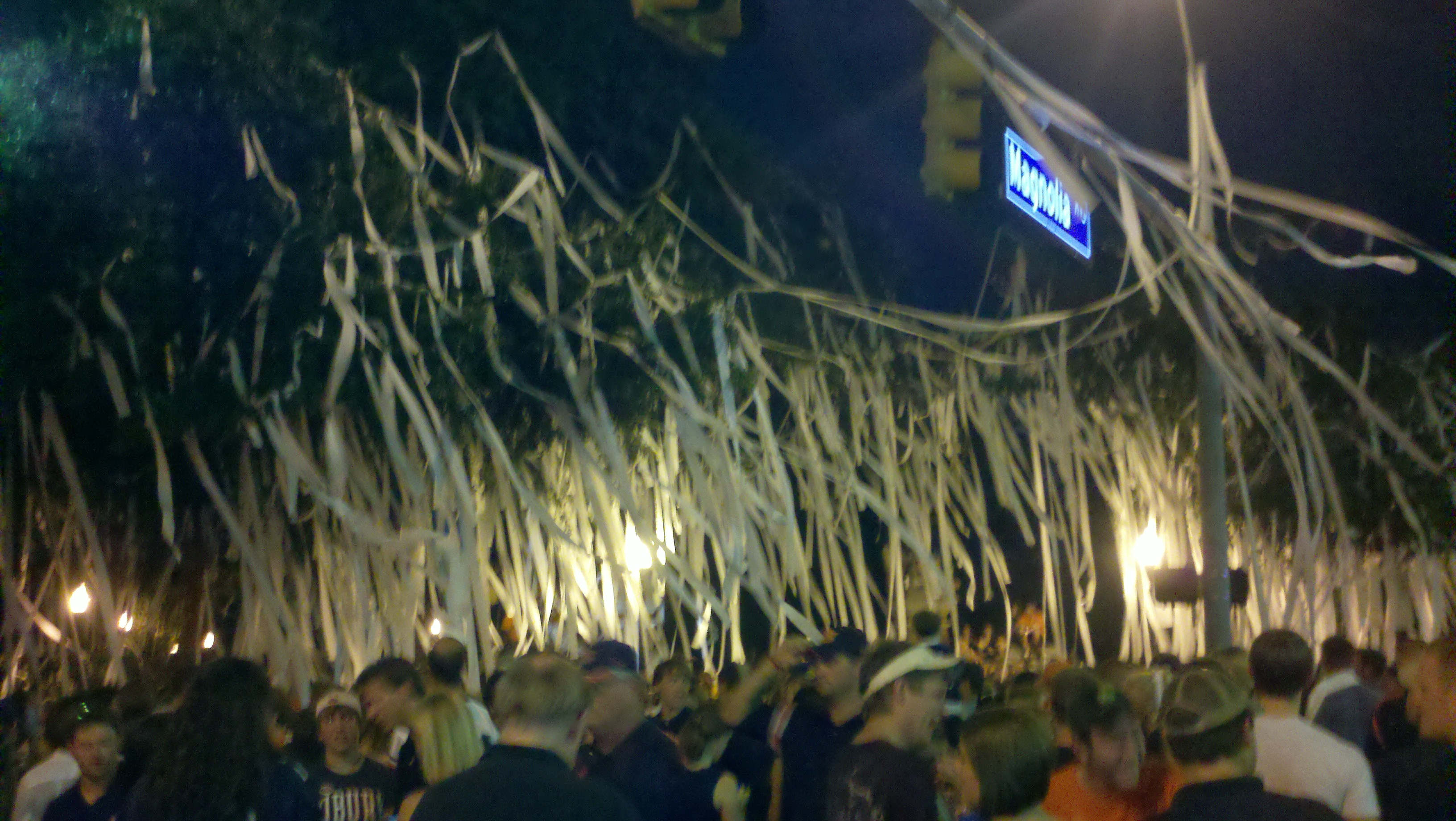 Picture of fans rolling Toomer's Corner after the overtime win by Auburn Tiger's Football Team over Clemson in 2010.